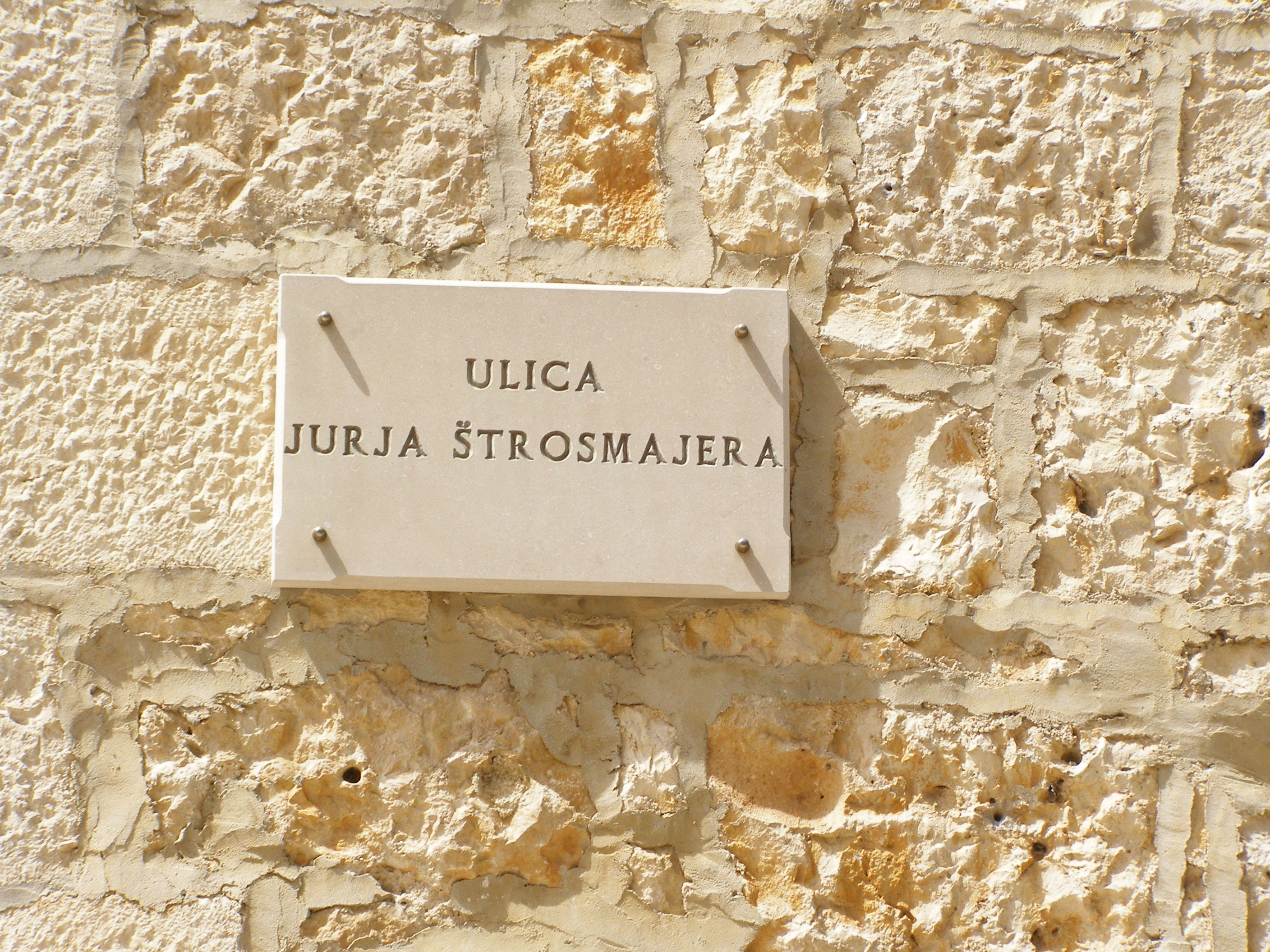 Strossmajer street, Selca, Island of Brač, Croatia